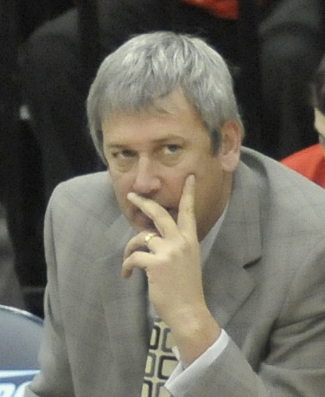 University of New Mexico men's basketball associate head coach Craig Neal at New Mexico's game against San Diego at the Jenny Craig Pavilion in San Diego, California, Dec.10, 2008